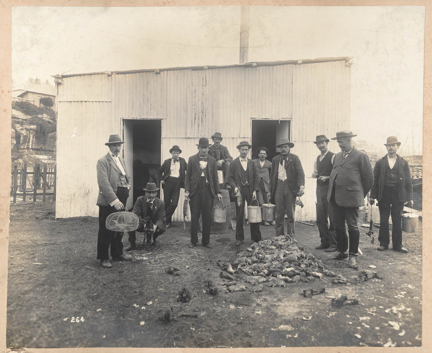 A silver gelatin photoprint of Professional ratcatchers in Sydney, Australia.